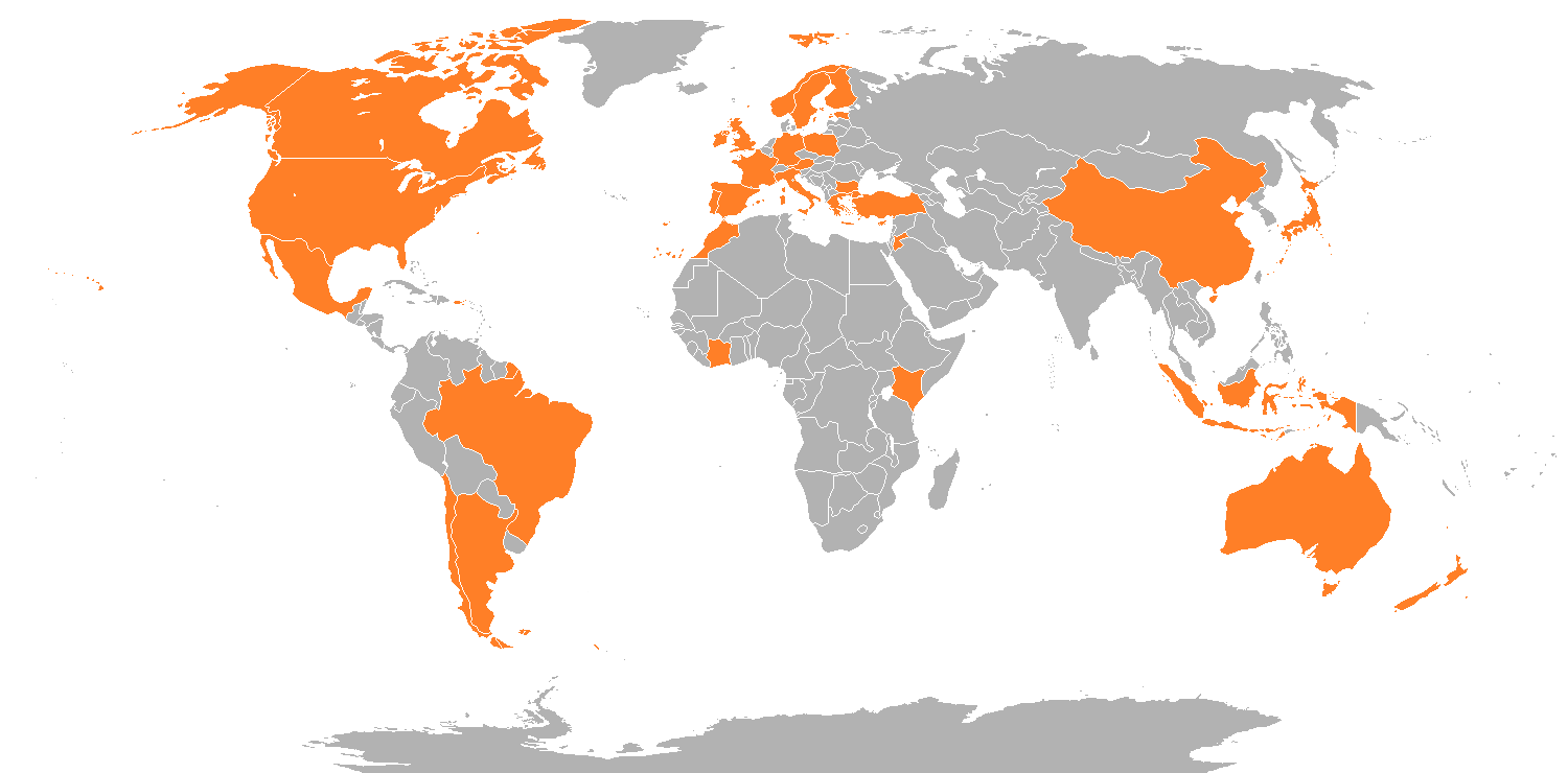 Countries that have hosted rallies featured in the World Rally Championship.